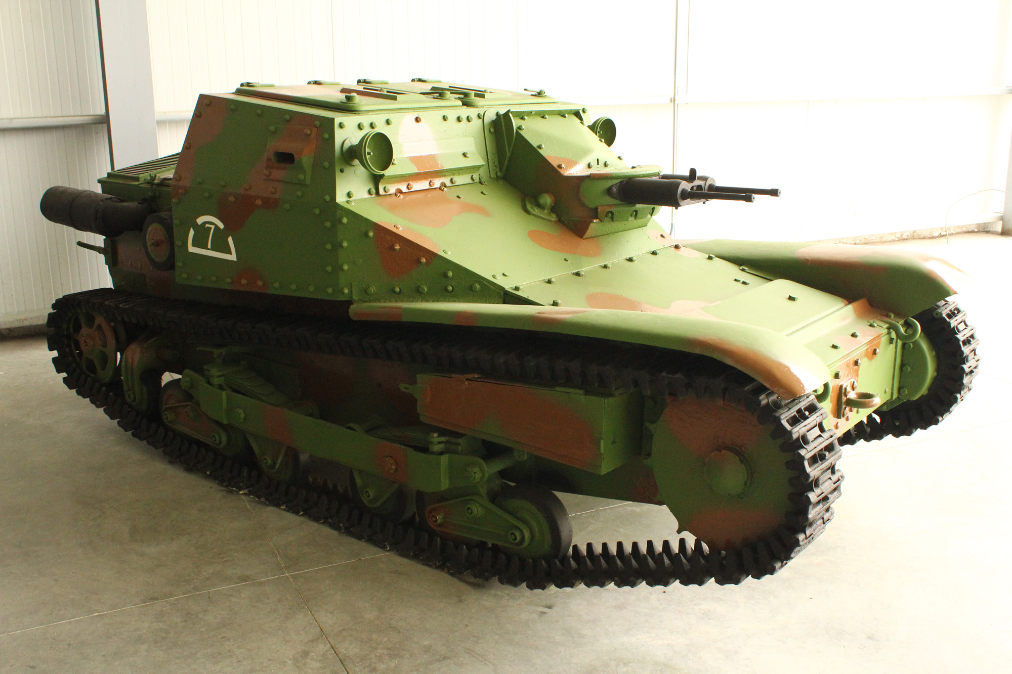 Carro ligero Fiat-Ansaldo CV-35. Las siglas CV, por "Carro Veloce" (carro veloz), indicaban la alta velocidad a la que se desplazaba este pequeño vehículo blindado construido en Italia a partir de 1931. A partir de agosto de 1936 llegaron a España 142 unidades de este carro en sus variantes CV-32 y CV-35, sirviendo en el bando nacional. Los últimos ejemplares fueron retirados del servicio activo en 1960, conservándose actualmente dos ejemplares, uno de los cuales se exhibe en este museo ya restaurado. Armored Units Museum of El Goloso Light tank Fiat-Ansaldo CV-35. The CV stands for "Carro Veloce" (fast car), indicating the high speed at which it moved this small armored vehicle built in Italy since 1931. From August 1936 arrived to Spain 142 units of this car in its variants CV-32 and CV-35, serving in the national side. The last units were withdrawn from active service in 1960, currently preserved two cars, one of which, restored, is on display in this museum.